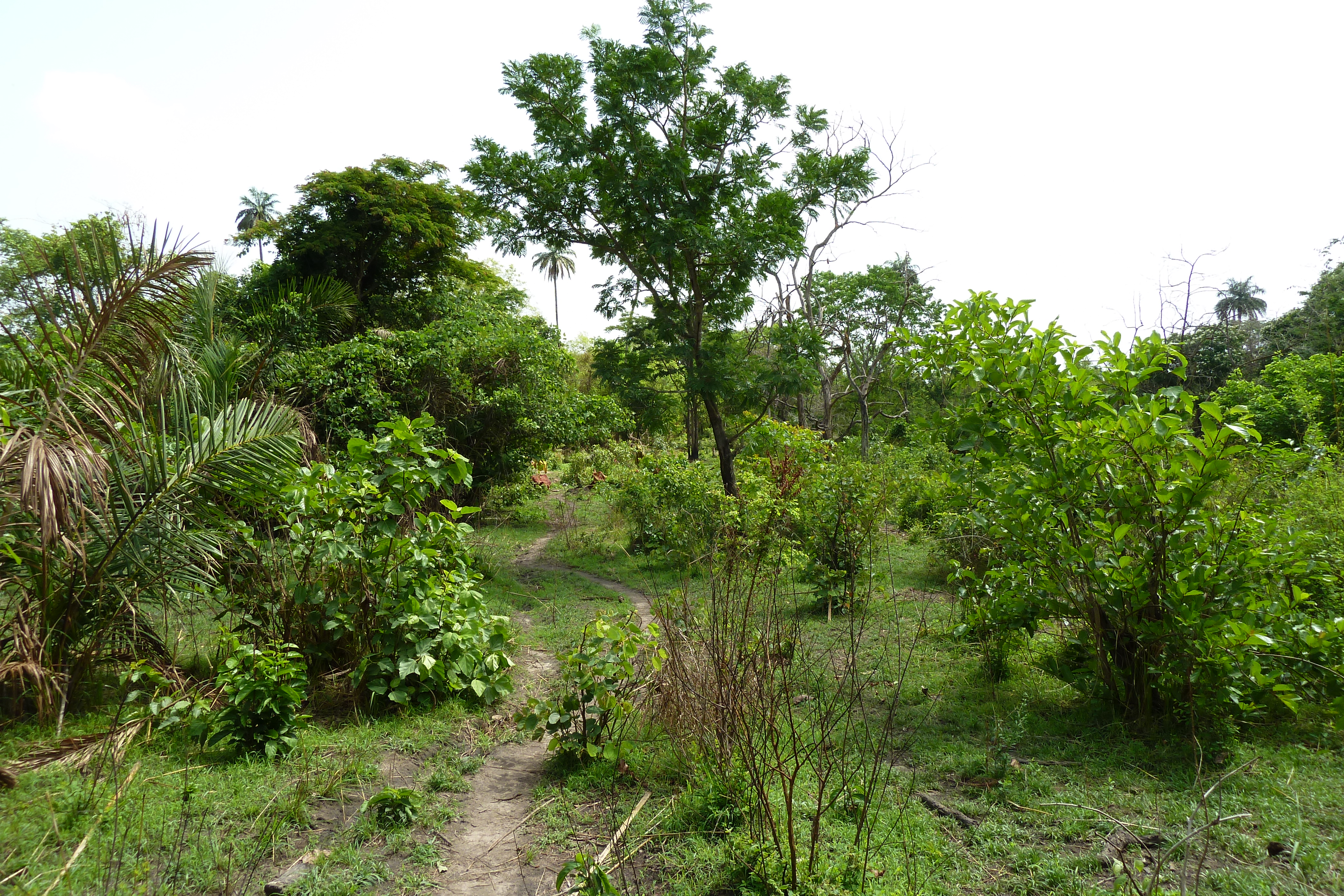 Rice cultivation in inland valleys in Benin